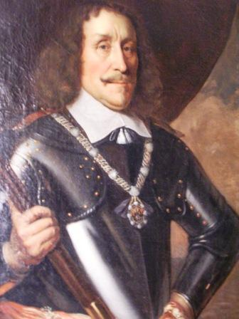 Witte de With